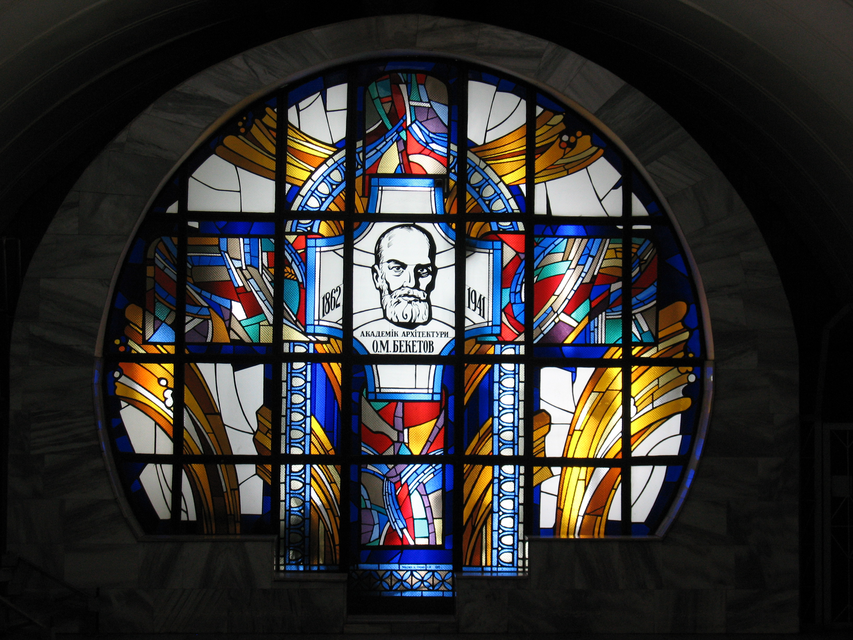 Decorations on the Arkhitektora Beketova metro station, Kharkov.